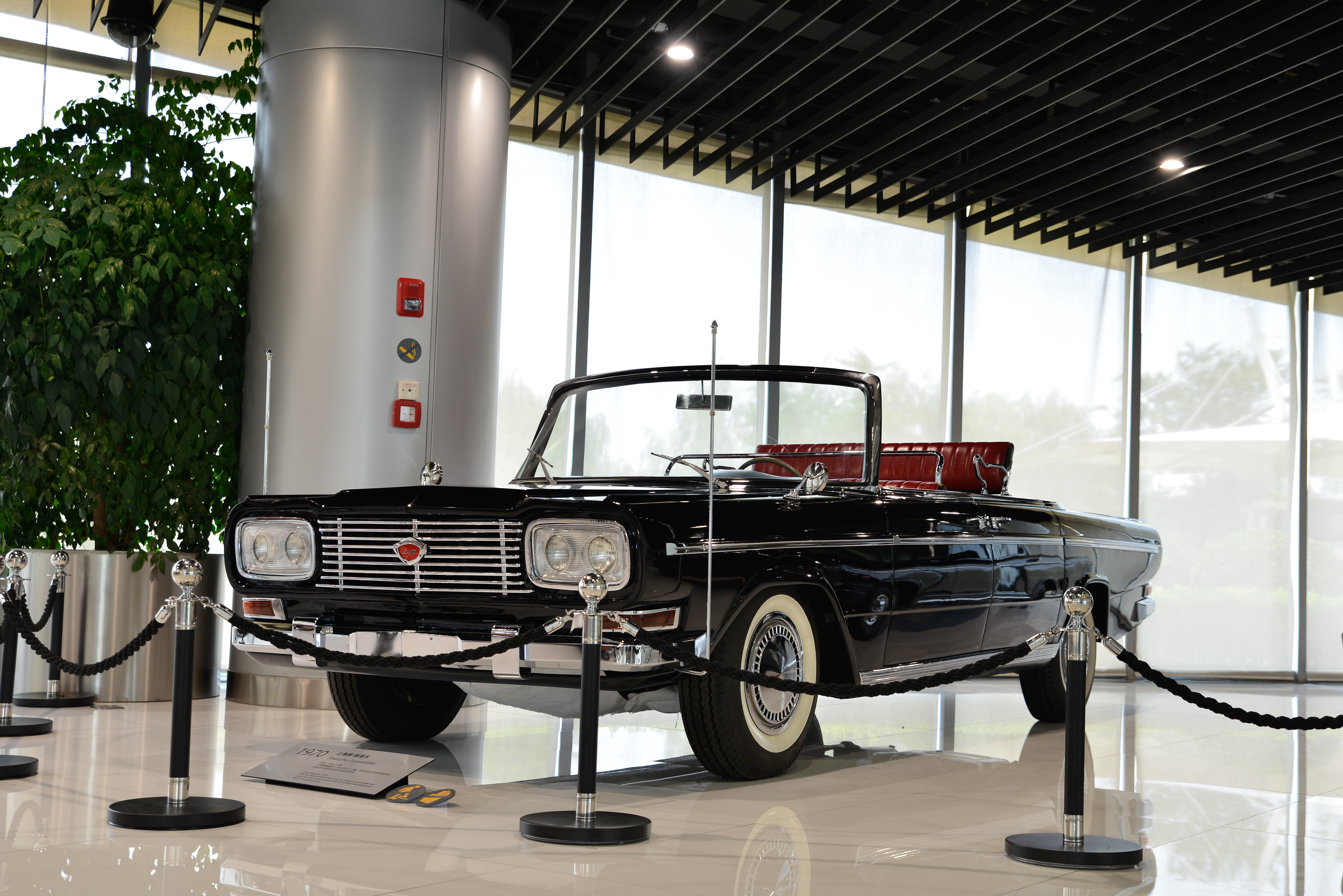 2 cars were produced, only.